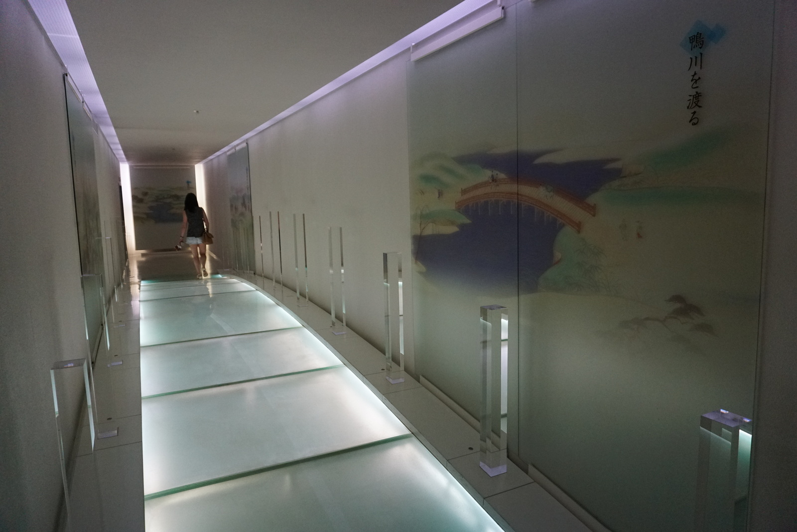 Glass bridge in Tale of Genji museum